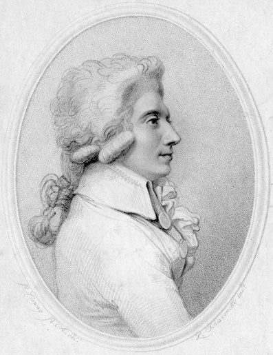 The Italian castrato singer Luigi Marchesi